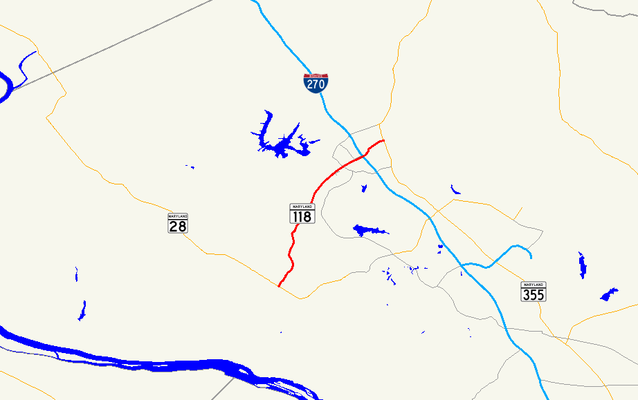 Map of Maryland Route 118